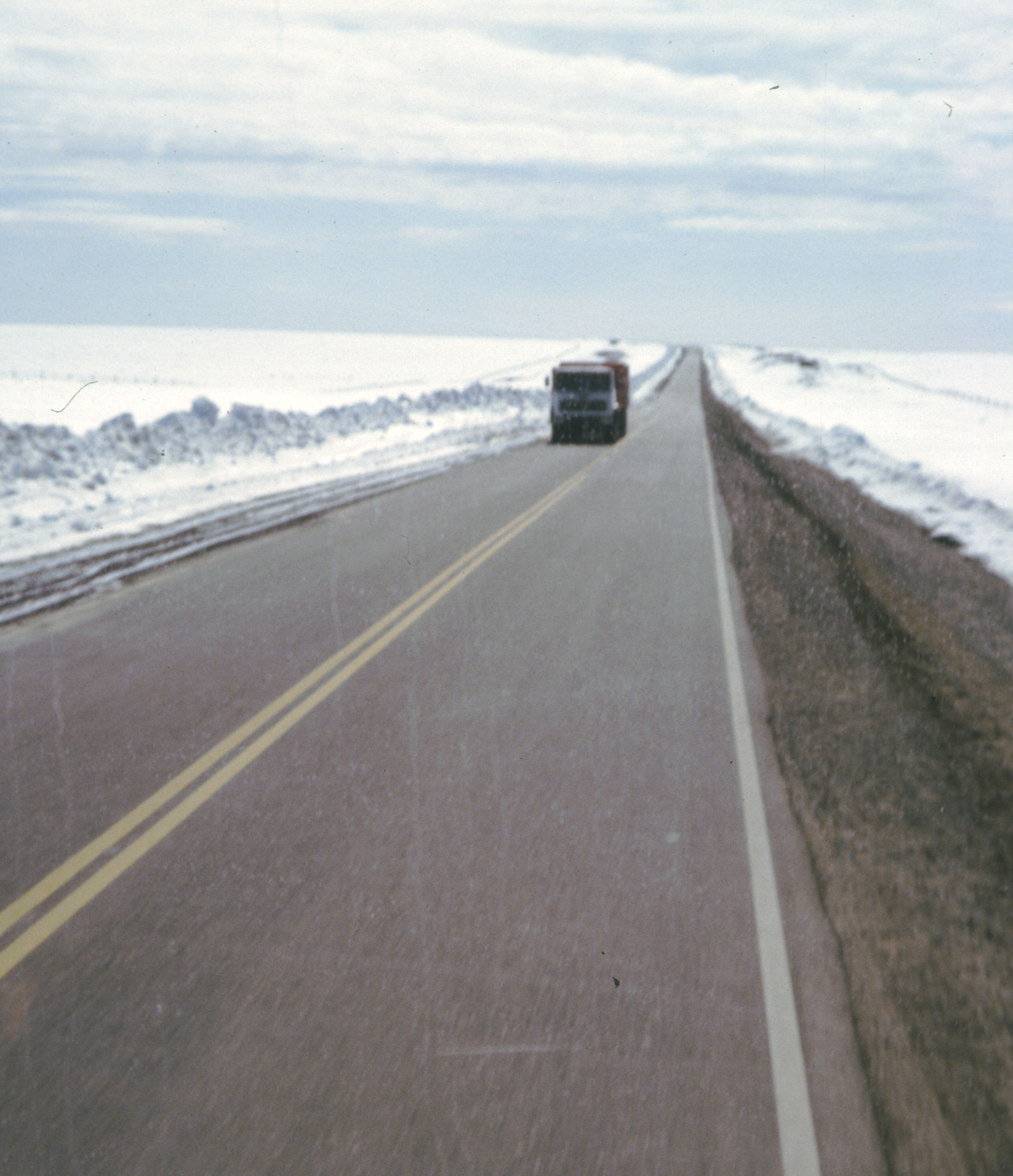 Ruta 40 Argentina, Province Santa Cruz, between Junction with RP 5 from La Esperanza and El Calafate